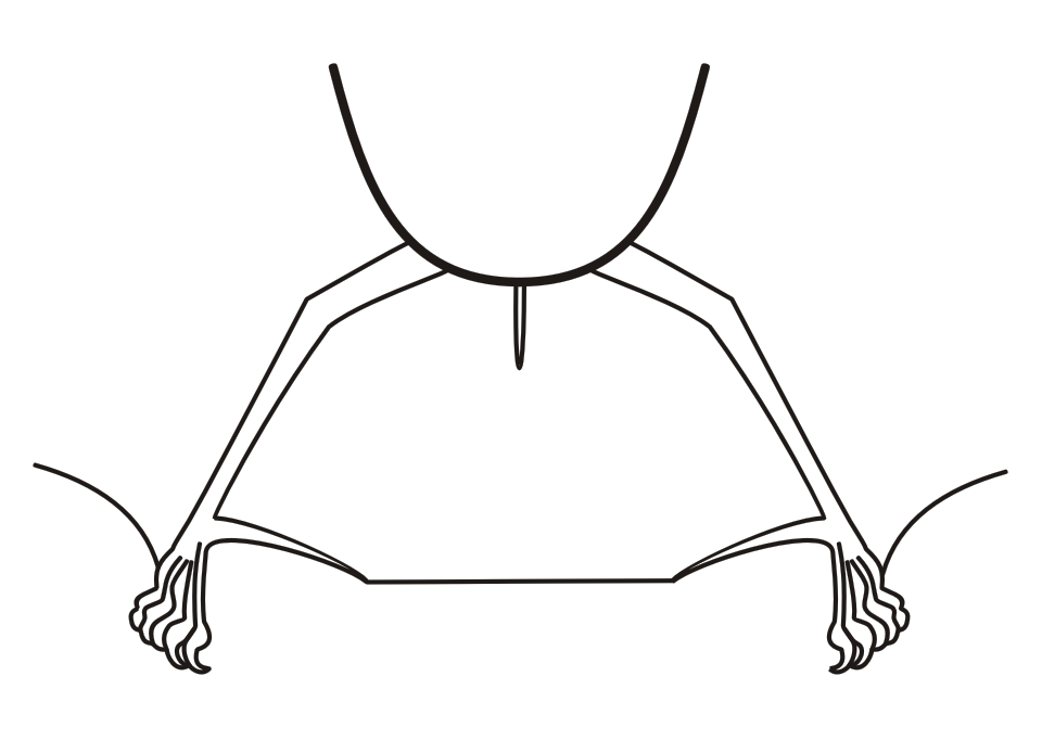 According to Husson, 1962 shows interfemoral membranes, calcar, feet and tail in bats of genus Tonatia